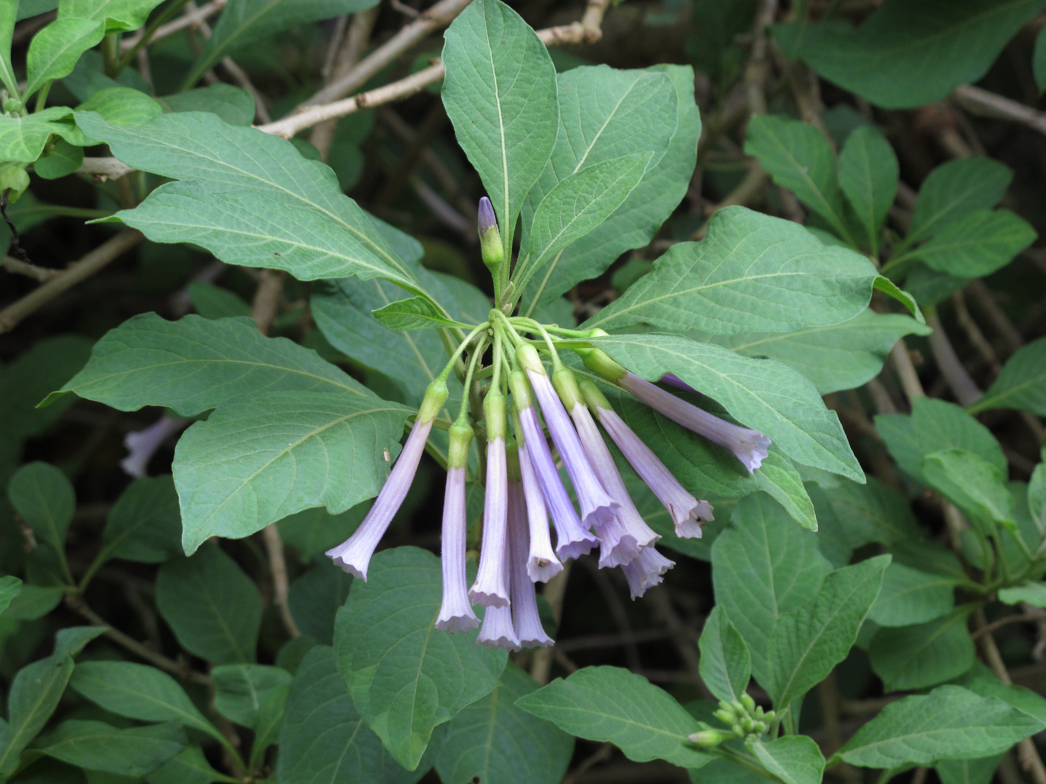 Fairchild Tropical Botanic Garden, Miami, Florida, USA.